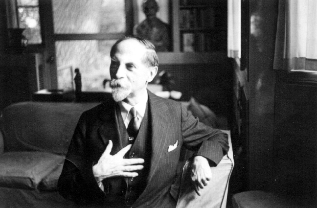 Swiss psychiatrist Adolf Meyer